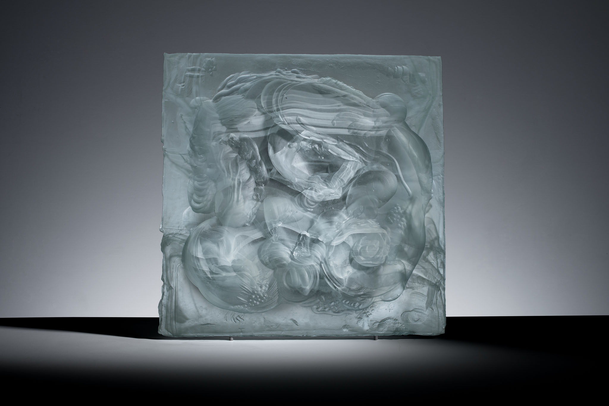 Carved Cast, Danny Lane, 2015, Carved cast glass